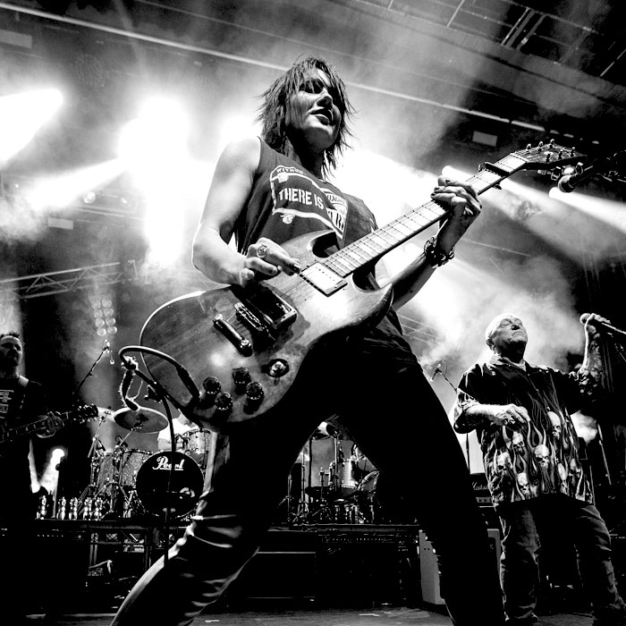 Sarah Mcleod at the One For The Road benefit concert. Enmore Theatre NSW 23rd November 2015.